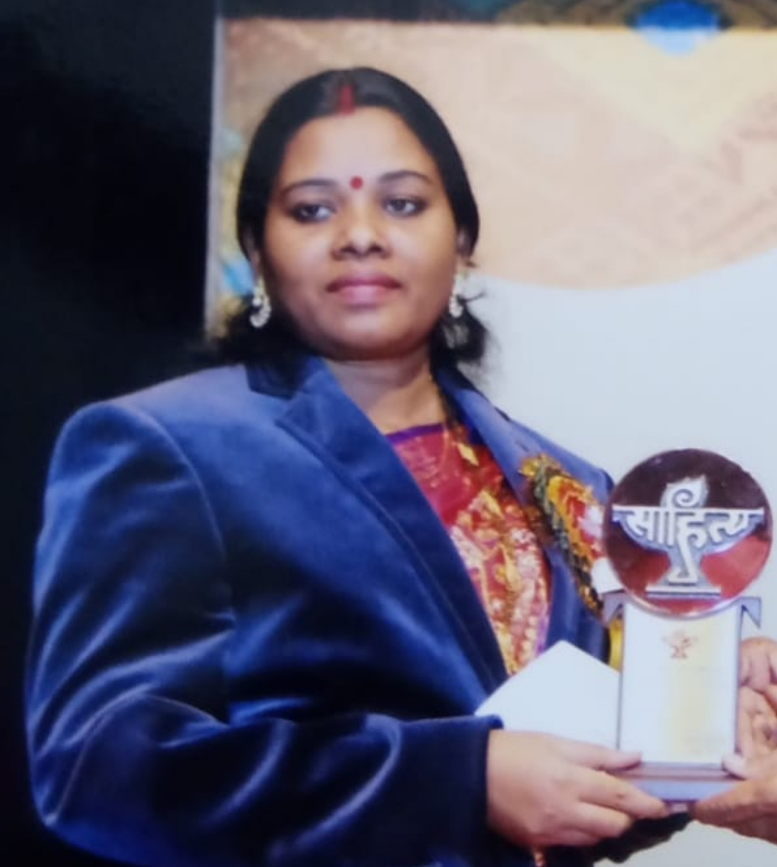 Maina Tudu, Receiving sahitya akademi YUVA PURASKAR for her santali poetry collection "MARSHAL DAHAR".